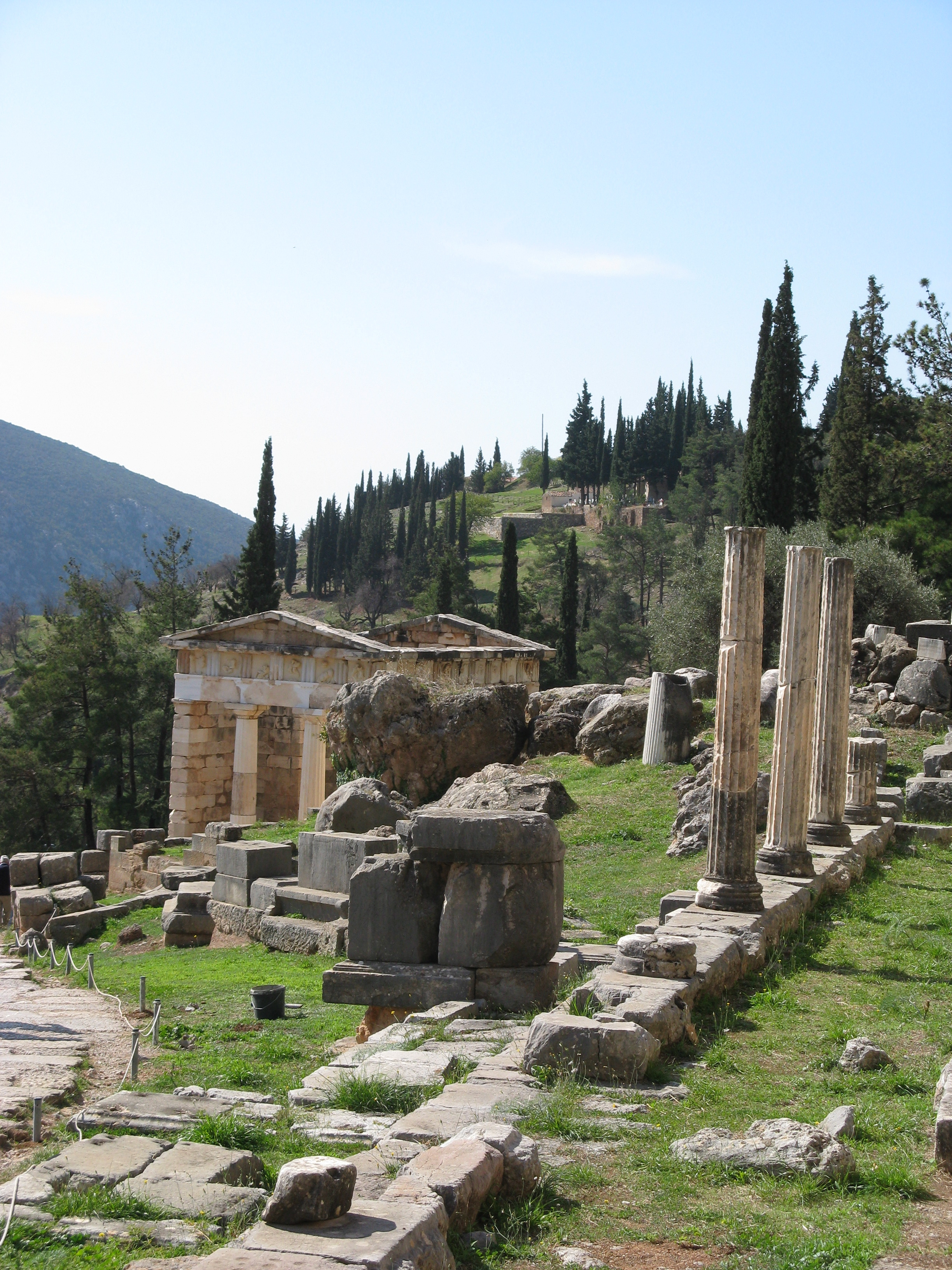 Treasury house of Athens on the left. The stoa of the Athenians on the right.